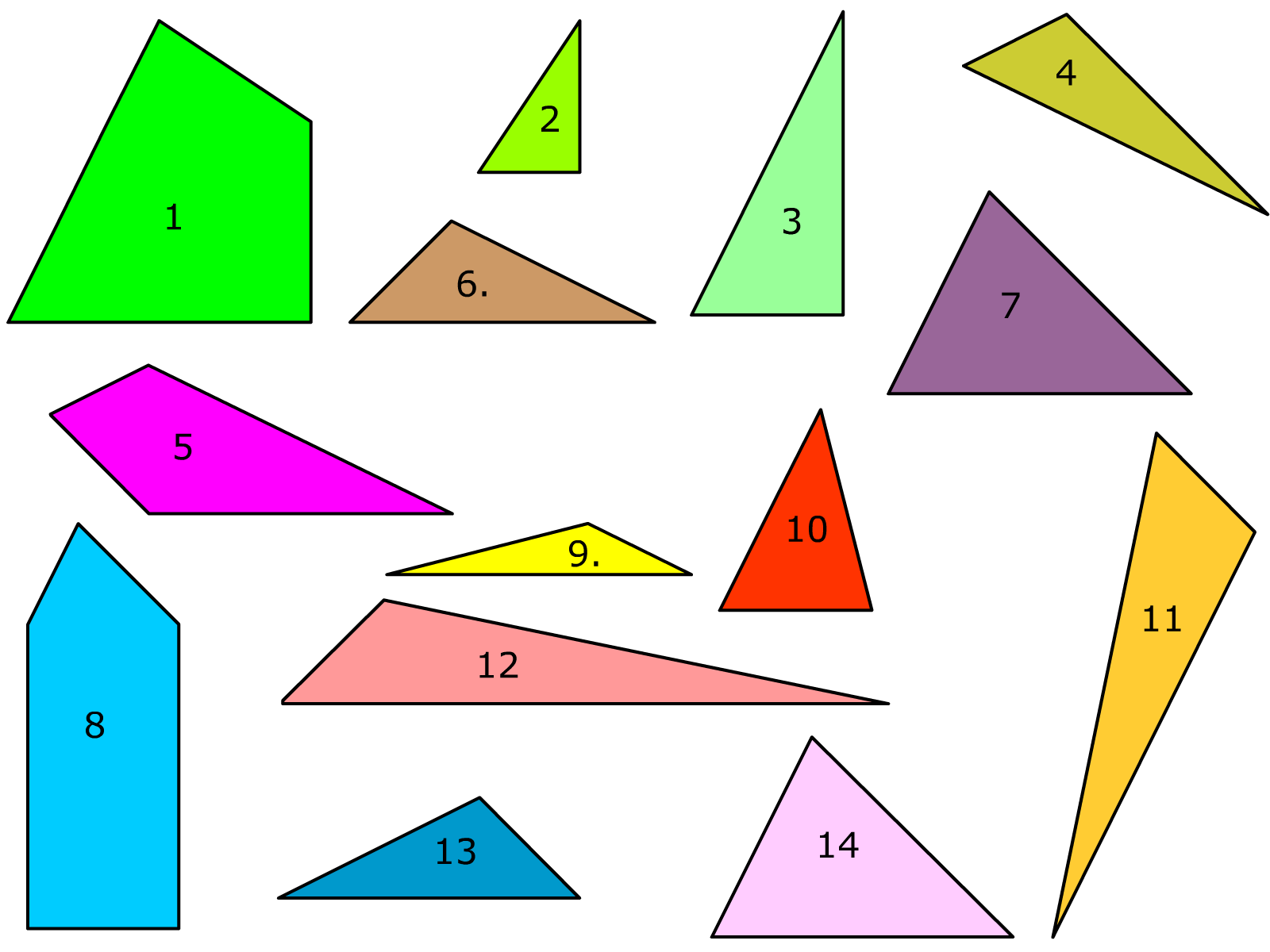 Stomachion